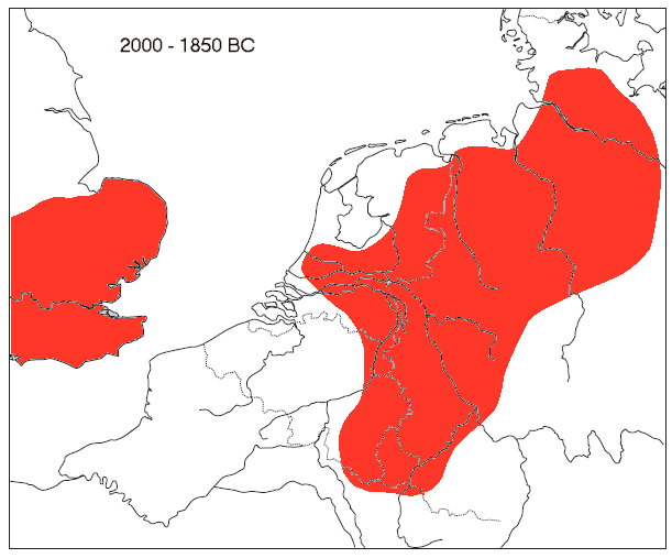 Geographical distribution of Barbed Wire Culture in red, within an estimated time frame of 2000 - 1850 BC.